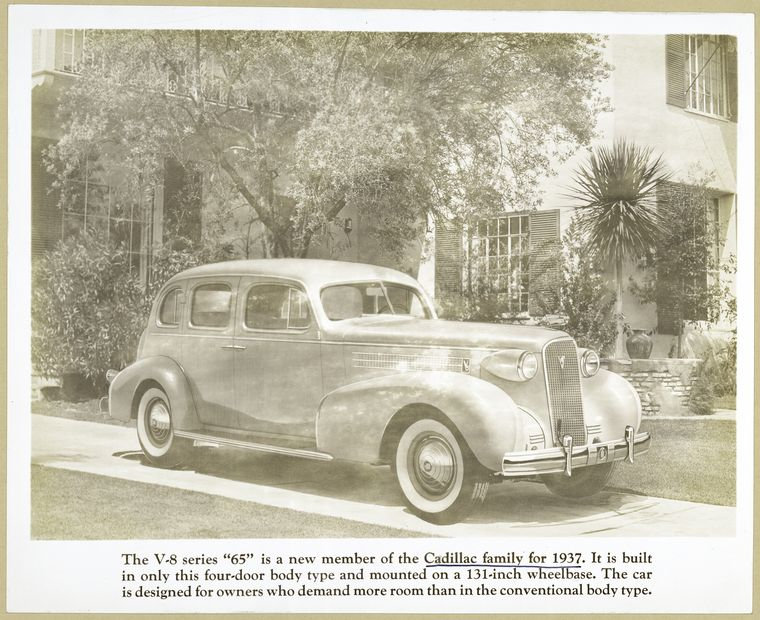 Cadillac 1937 Series 65 Four-Door Touring Sedan Digital ID: 482025. The V-8 series 65 is a new member of the Cadillac family for 1937. Notes: It is built in only this four-door body type and mounted on a 131-inch wheelbase. The car is designed for owners who demand more room than in the conventional body type. Source: Photographs of General Motors and Chrysler car and truck models, 1902 - 1938. / 1902-1938. Cadillac - Chrysler - De Soto - Dodge - LaSalle - Plymouth. Photographs - Specifications. ( more info ) Repository: The New York Public Library. Science, Industry and Business Library. General Collection Division. See more information about this image and others at NYPL Digital Gallery . Persistent URL: Rights Info: No known copyright restrictions; may be subject to third party rights (for more information, click here )